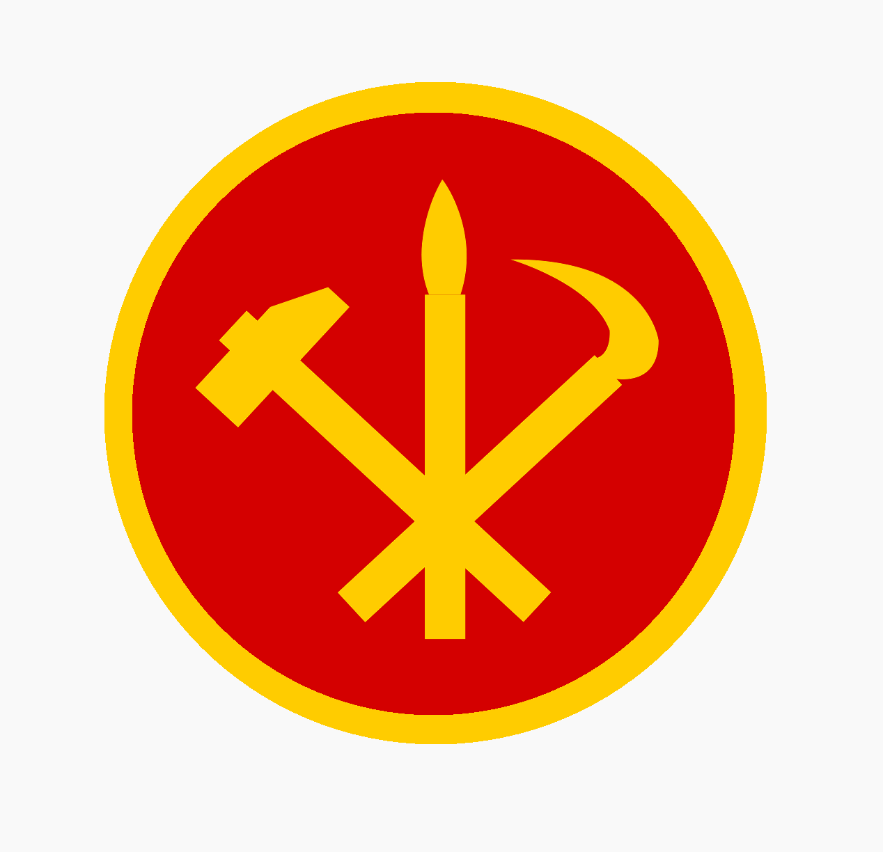 Emblem of Workers Party of Korea